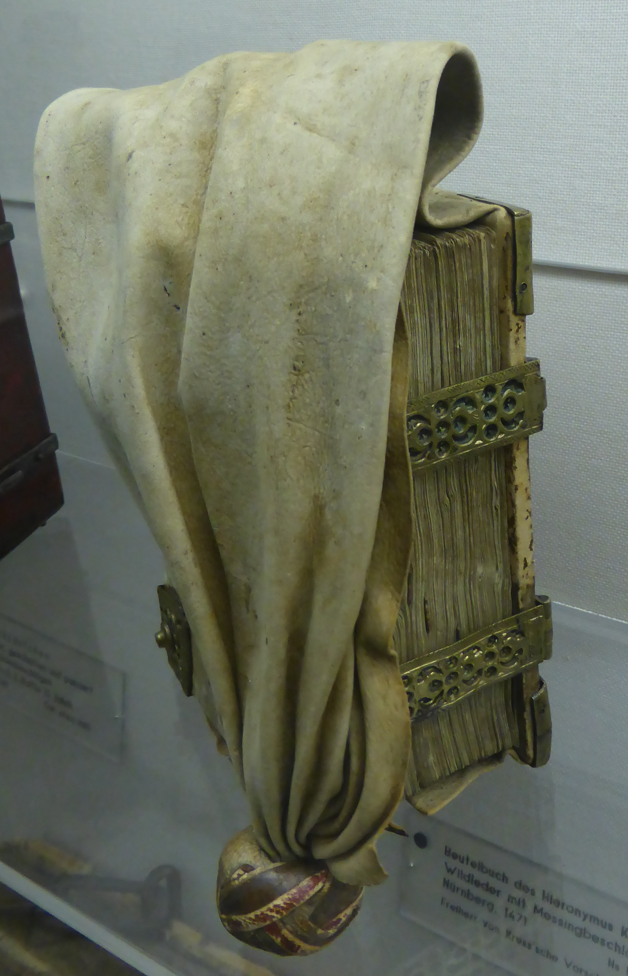 Germany, Bayern, Nuremberg